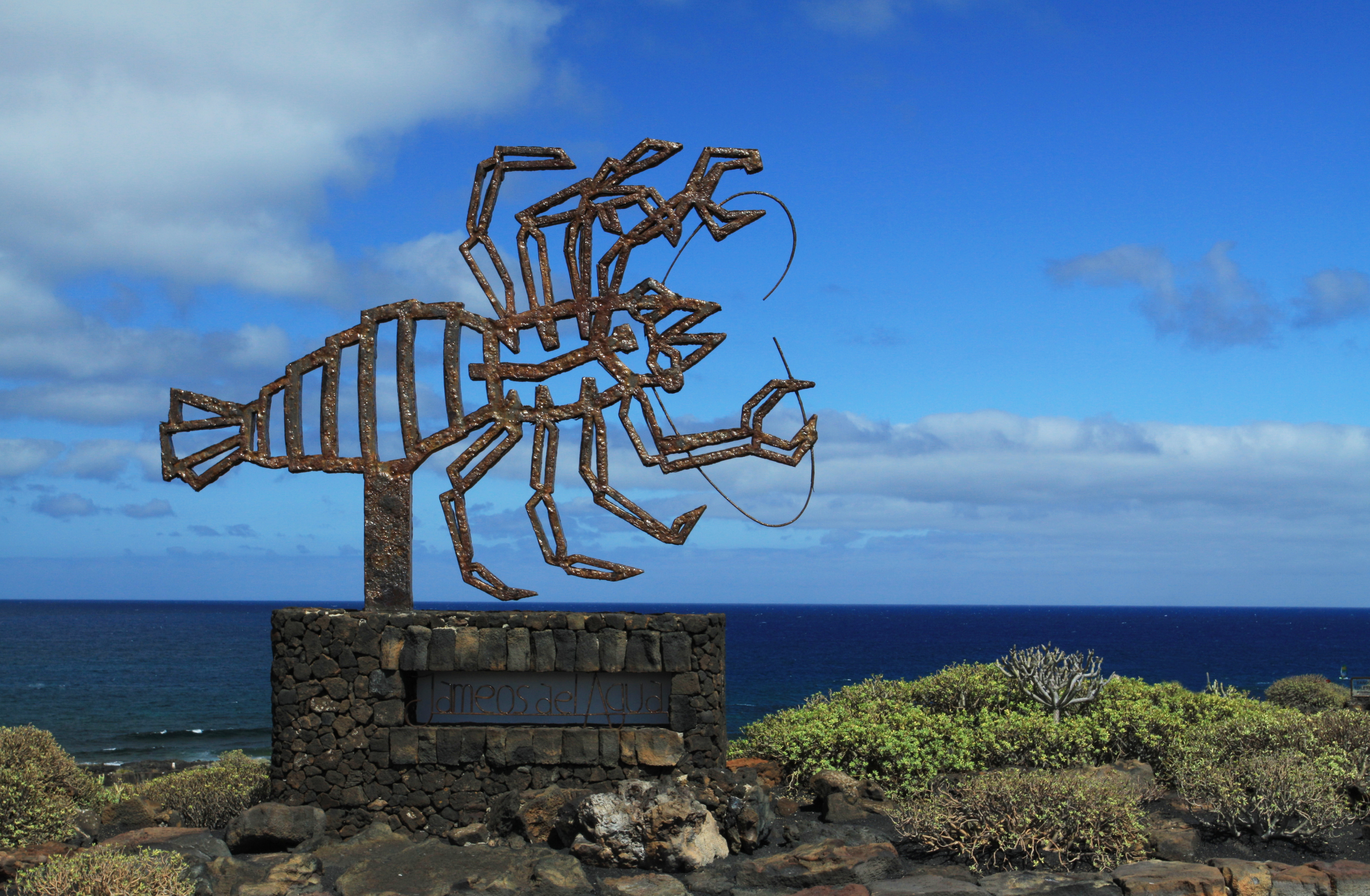 Tourist center Jameos del Agua on Lanzarote, The Canary Islands, Spain